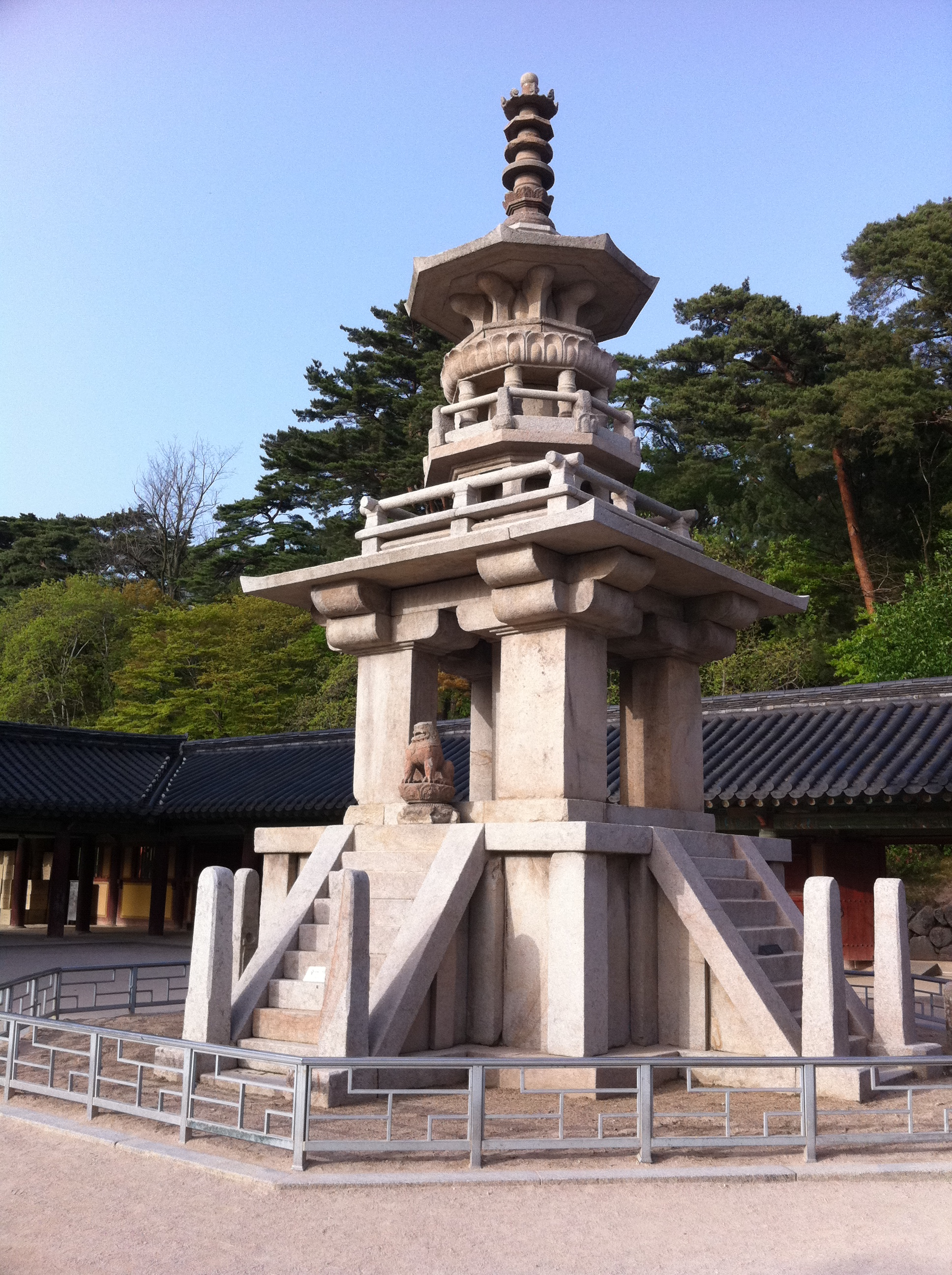 Bulguksa tap